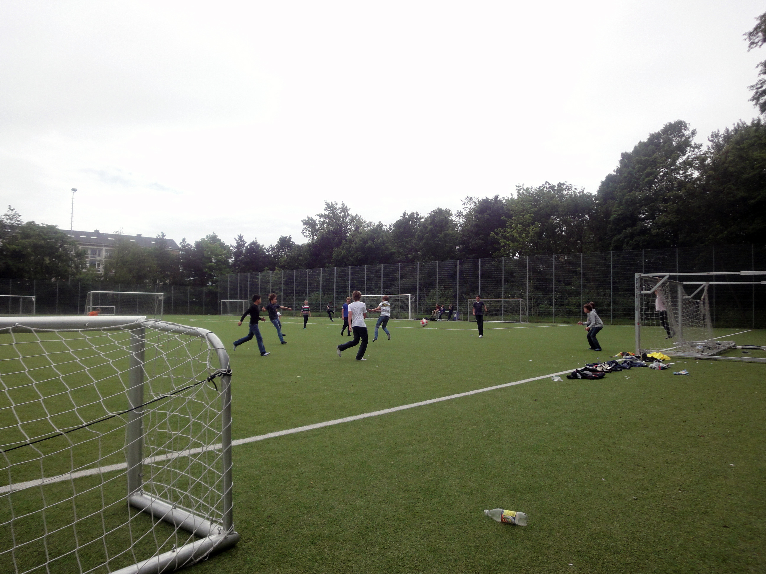 field of soccer and cricket club Quick